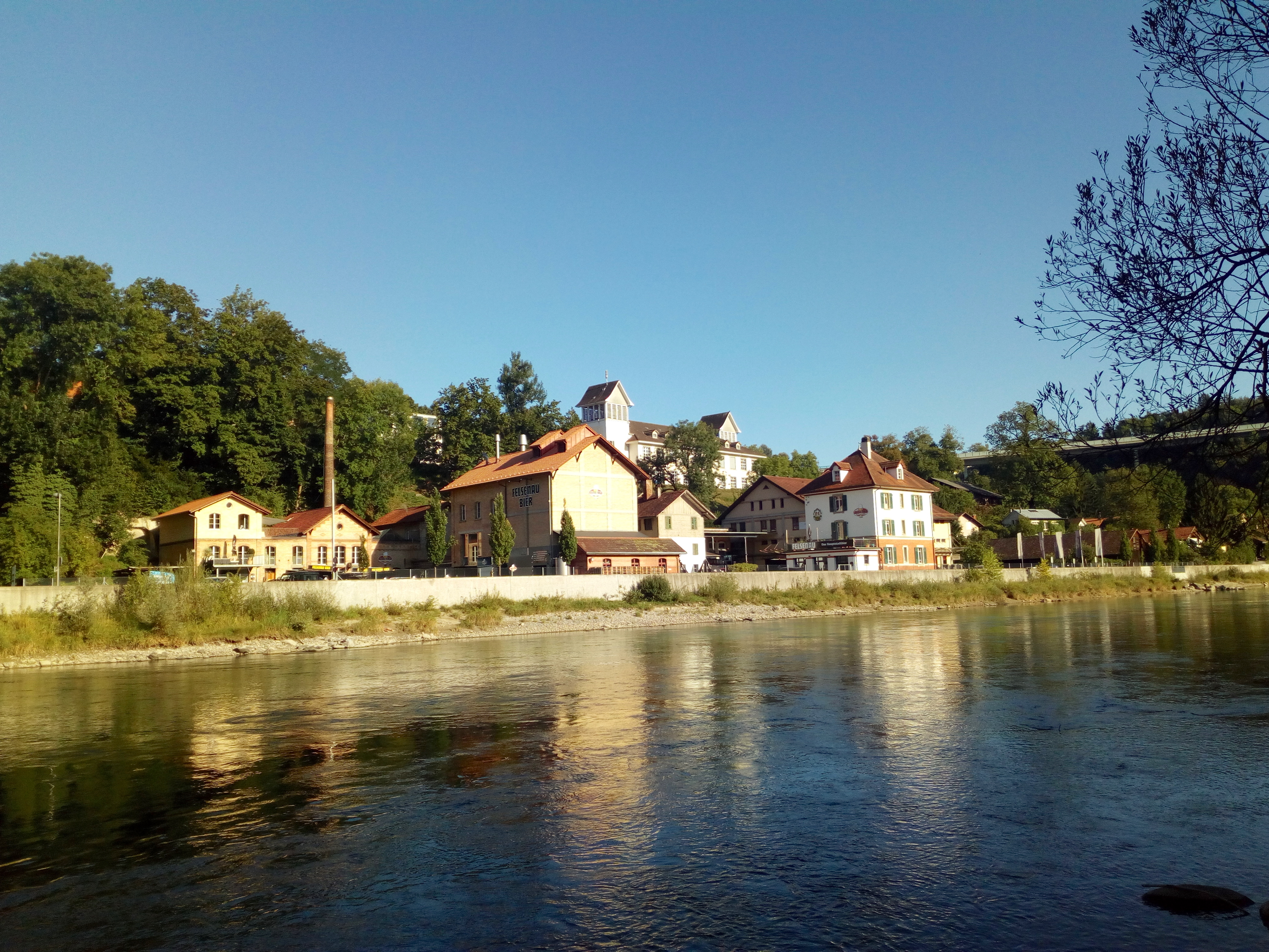 Brewery Felsenau in Bern, Switzerland